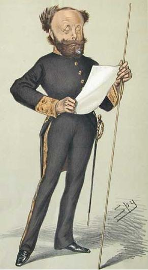 Caricature of Lord Otho FitzGerald. Caption read "A Message from the Queen".